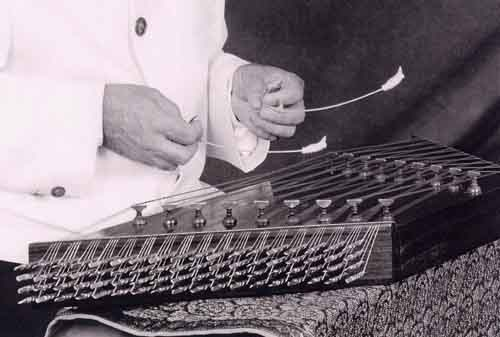 Author: Afshin Max Sadeghi Picture of the correct technical hand position and stance to play the Persian santur. I took this picture and I'm uploading it as free art to be used for educational purposes Please feel free to distribute and use for public use. Santurman (talk) 10:58, 30 September 2011 (UTC)